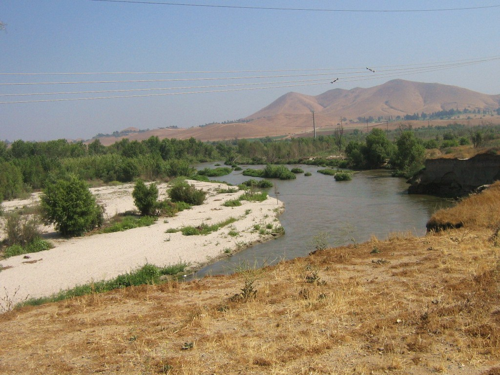 The Santa Ana River looking south in Riverside.